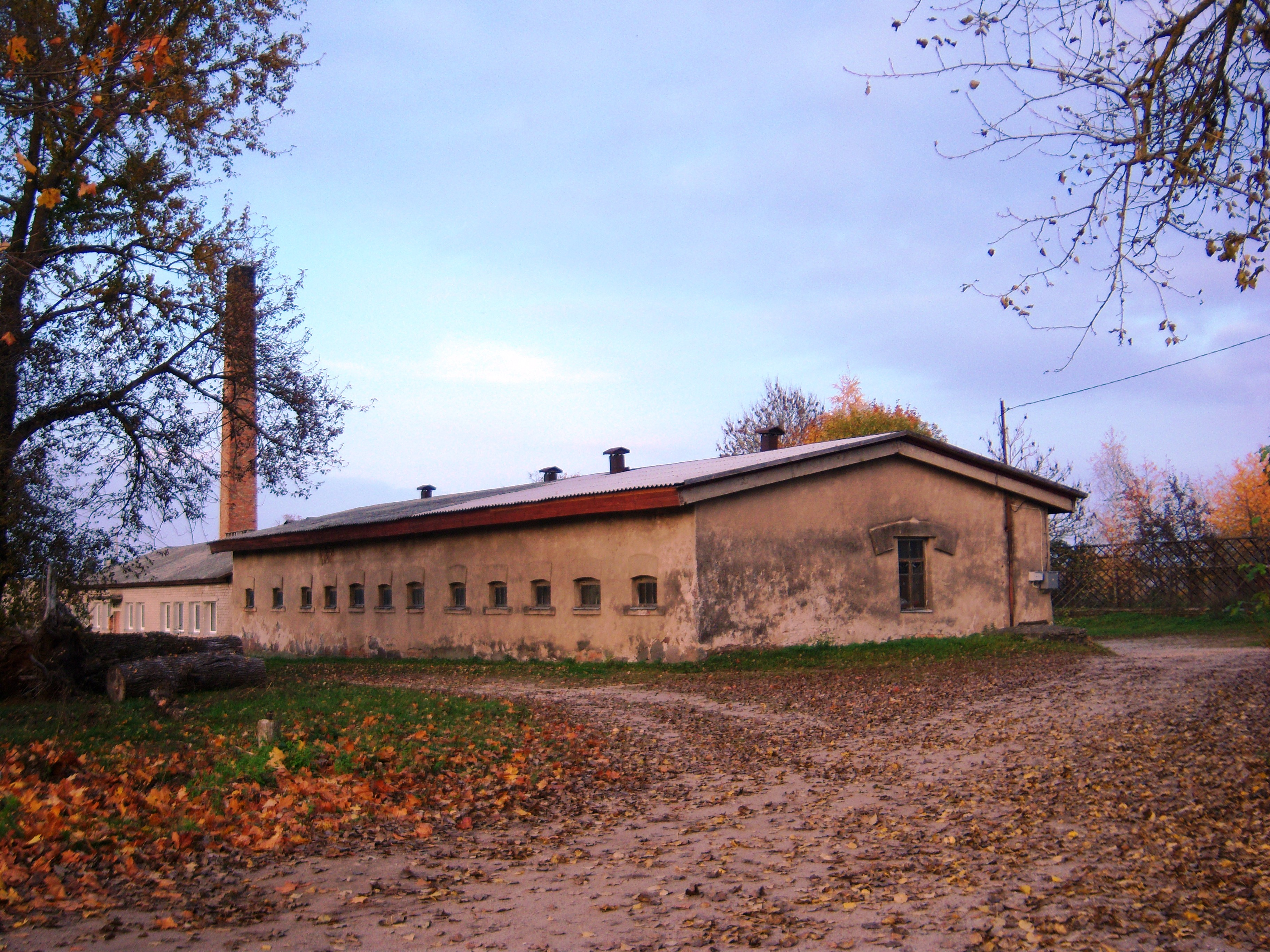 Former manor in Aknystos, stable, Anykščiai District, Lithuania